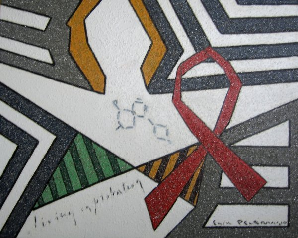 "Living on probation" , by Erik Pevernagie, oil on canvas, 80 x 100 cm Life offers us a flair of awareness in the breeze of our daily journey and gives free rein to explore what we are, to experience what we are not, and to find out what we may become. It grants a free ride until everything melts down into the indistinct and indefinite while walking up to the ultimate gate of non-existence. Some fail to bear in mind that everyone is sentenced to death. Death is a treacherous virus that strikes randomly. The only truth is that nobody is going to make it out alive. We are all living on probation, and our expiry date is indefinite. We may like to combat disease or even want to cure death. We may try to surf on the waves of infinity and attempt to kill mortality. Nobody, though, ever recovers from this lethal illness. In the meantime, we’d better unlock temporal moments that deliver touches of eternity. They, for sure, never disappoint. Certain social groups, however, are predestined "not to be lucky" in life. People living with Aids are condemned to live on probation, and many have the feeling they are only temporarily released from death. Chemical formulae on the canvas point out the medical researches and the urgent need for a vital remedy. A Red Ribbon appeals to the necessity of international "aids solidarity." A prototype of the painting was executed on paper, for Yvon Lambert Gallery, Paris (Art Protects) Phenomenon: Aids and solidarity Factual starting point of the picture: Person in lying position